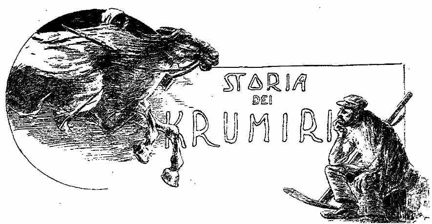 Caricature of "Krumirs" (both a Tunisian tribe and the Italian word for "scabs")